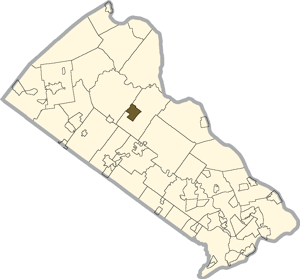 Plumsteadville shaded on the map of Bucks county, PA.